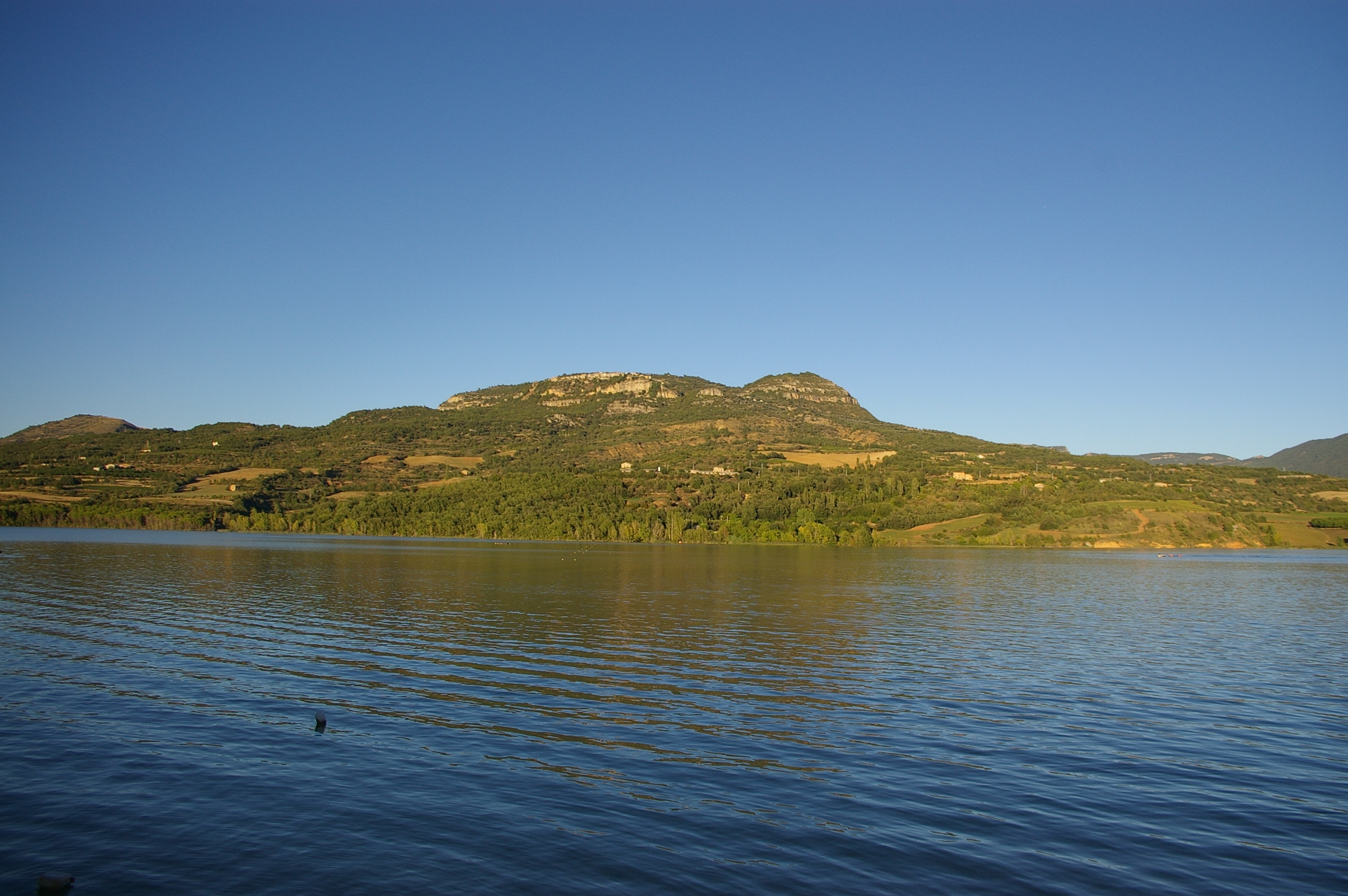 The Terradet's dam, in the Noguera Pallaresa river. Cellers, Lérida, Spain